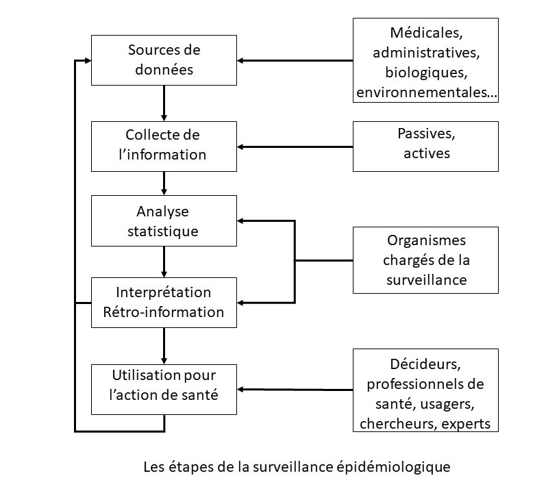 Sequences of the stages and actors of epidemiological surveillance